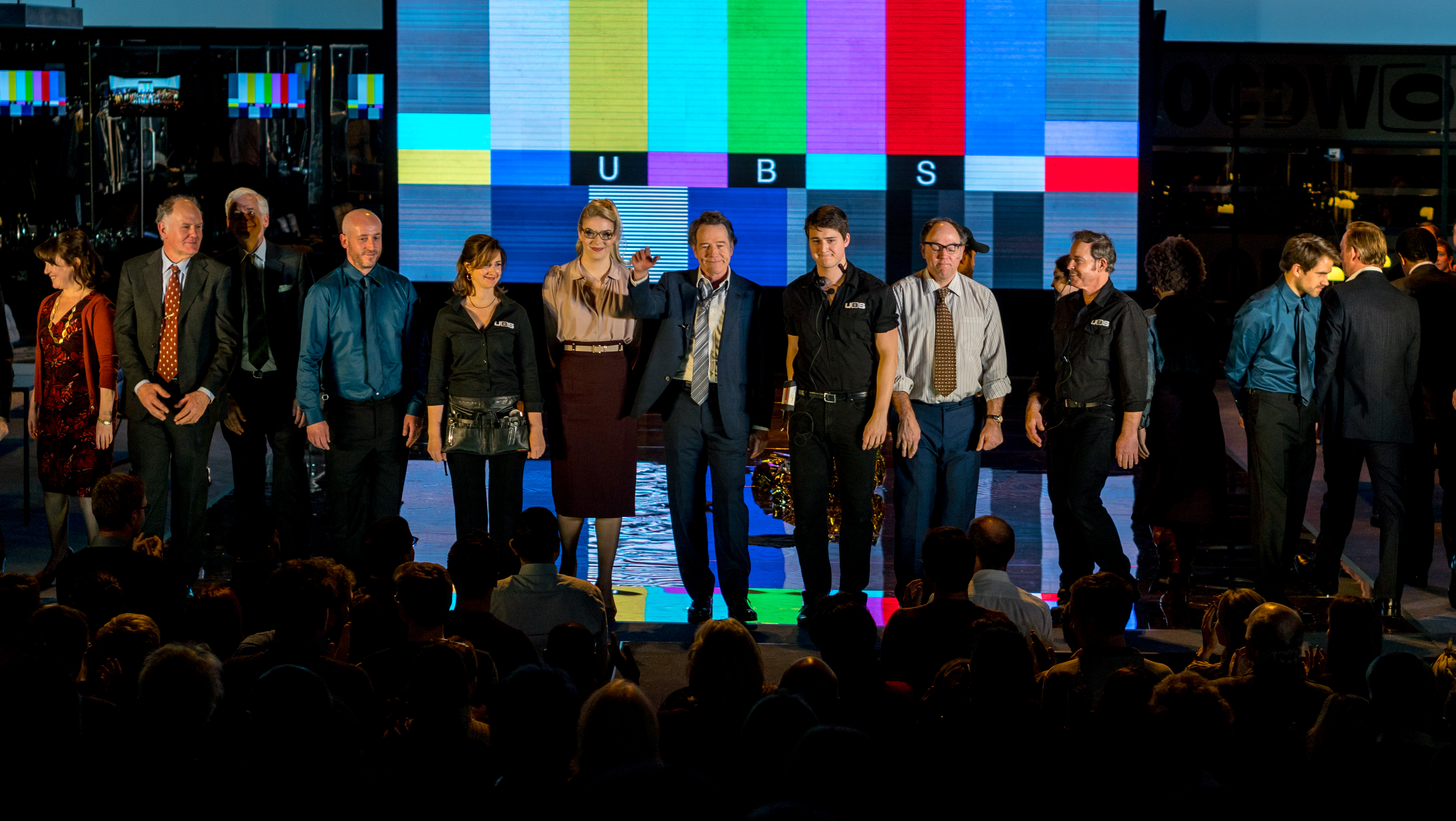 NetworkNT191217-10